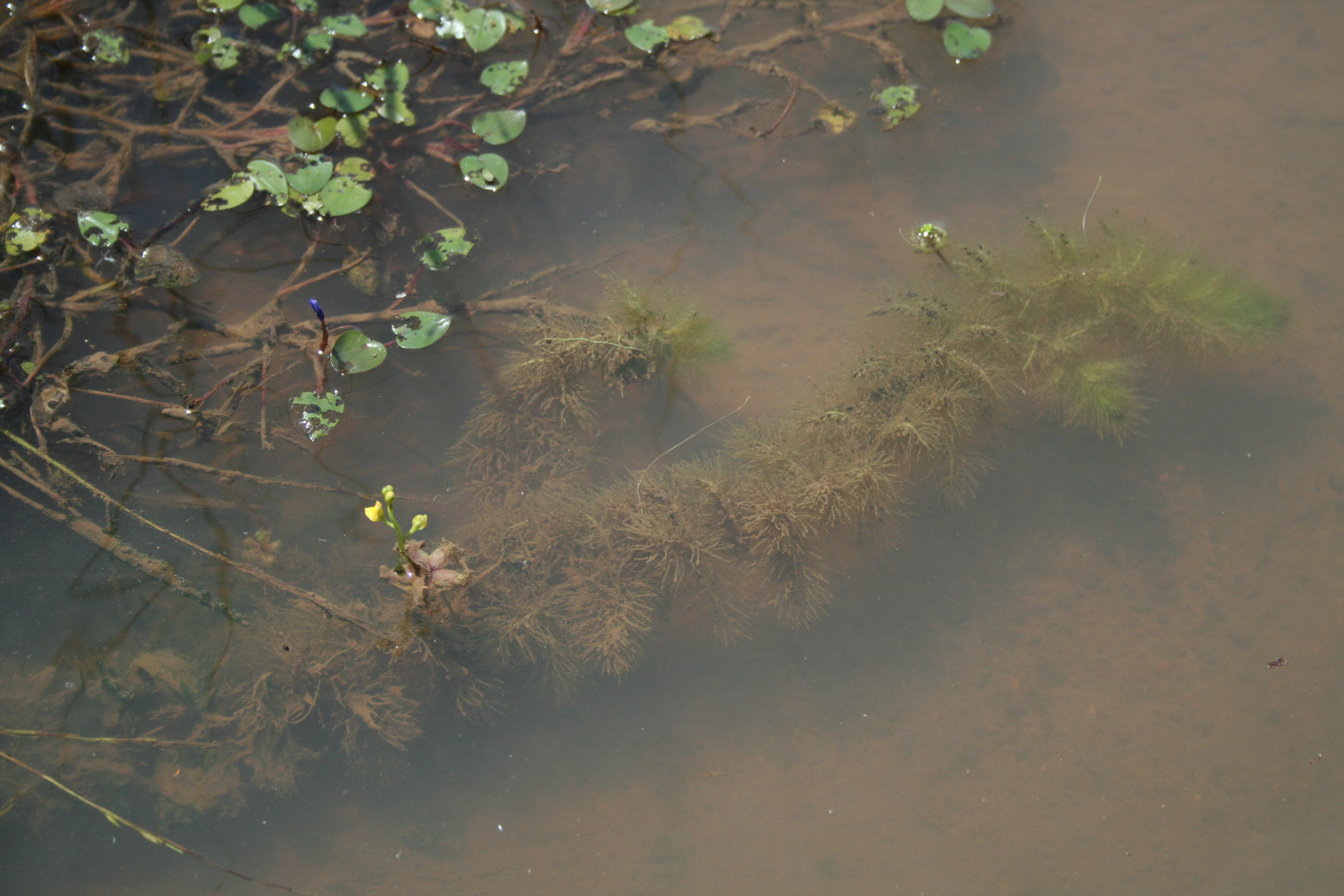 Utricularia inflexa var. stellaris, Arly NP, S Burkina Faso